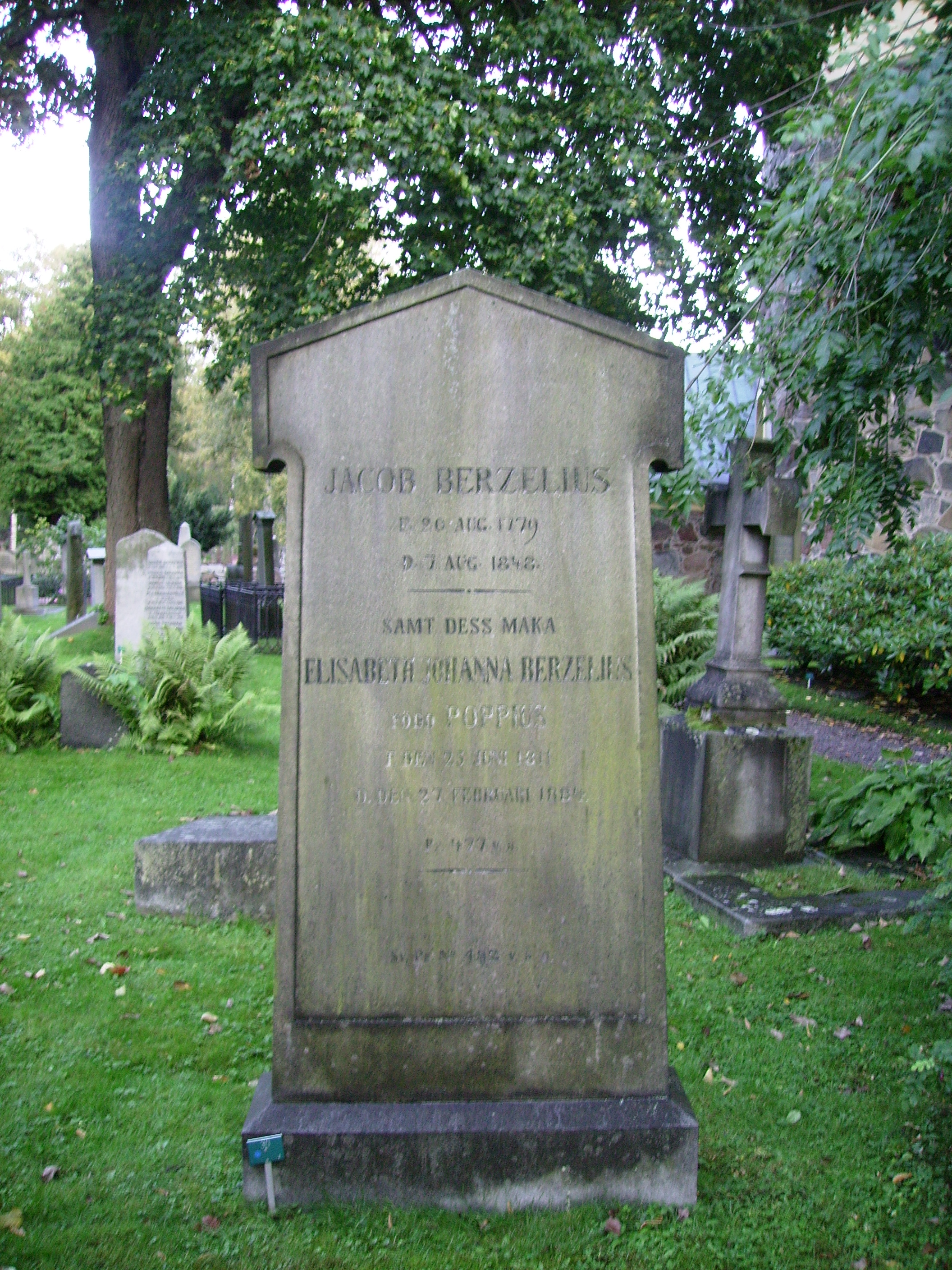 Picture of Jacob Berzelius grave at Solna kyrkogård